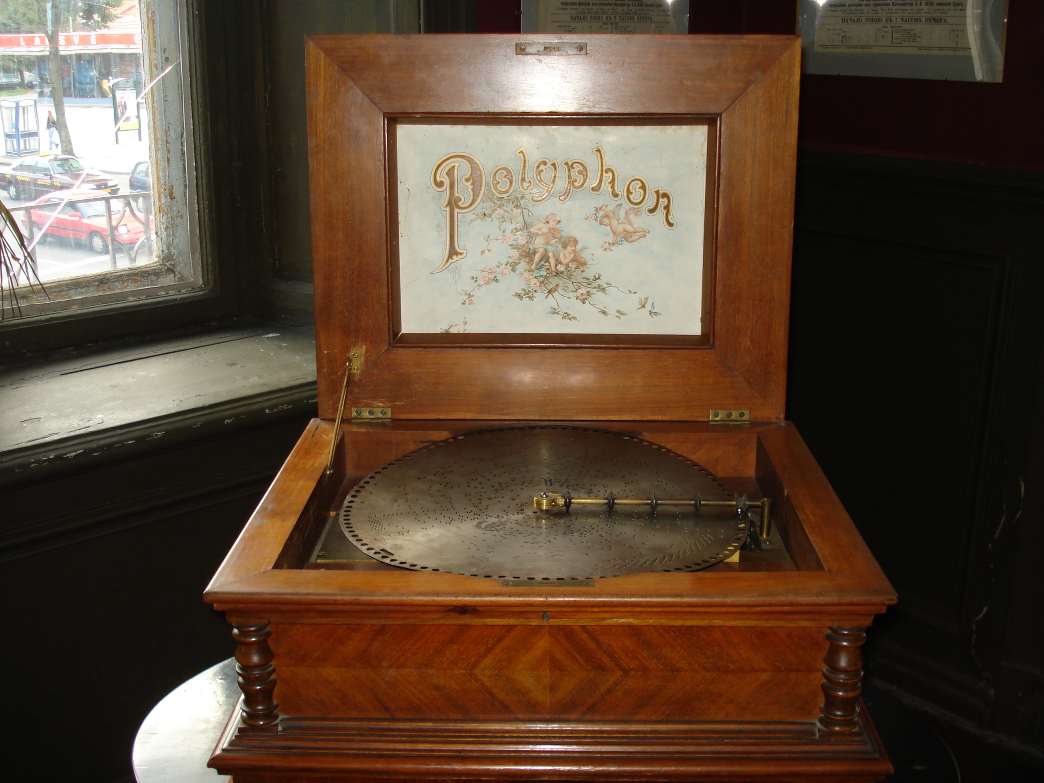 Polyphon from the collection of the Lithuanian Theatre, Music, and Film Museum (Vilnius). 2008Lietuvių: Polifonas iš Lietuvos teatro, muzikos ir kino muziejaus (Vilnius) kolekcijos. 2008